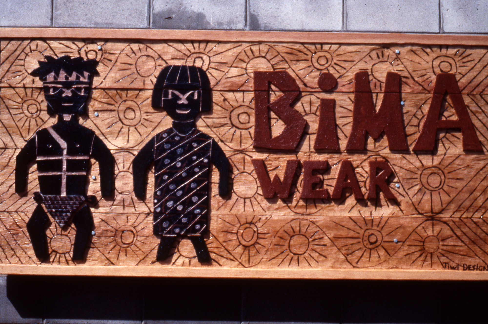 Bima Wear was originally established in 1969, by Sister Eucharia of the Catholic Church Mission on Bathurst Island, Northern Territory. The purpose was to make clothing for the locals. (PH0730-0046)